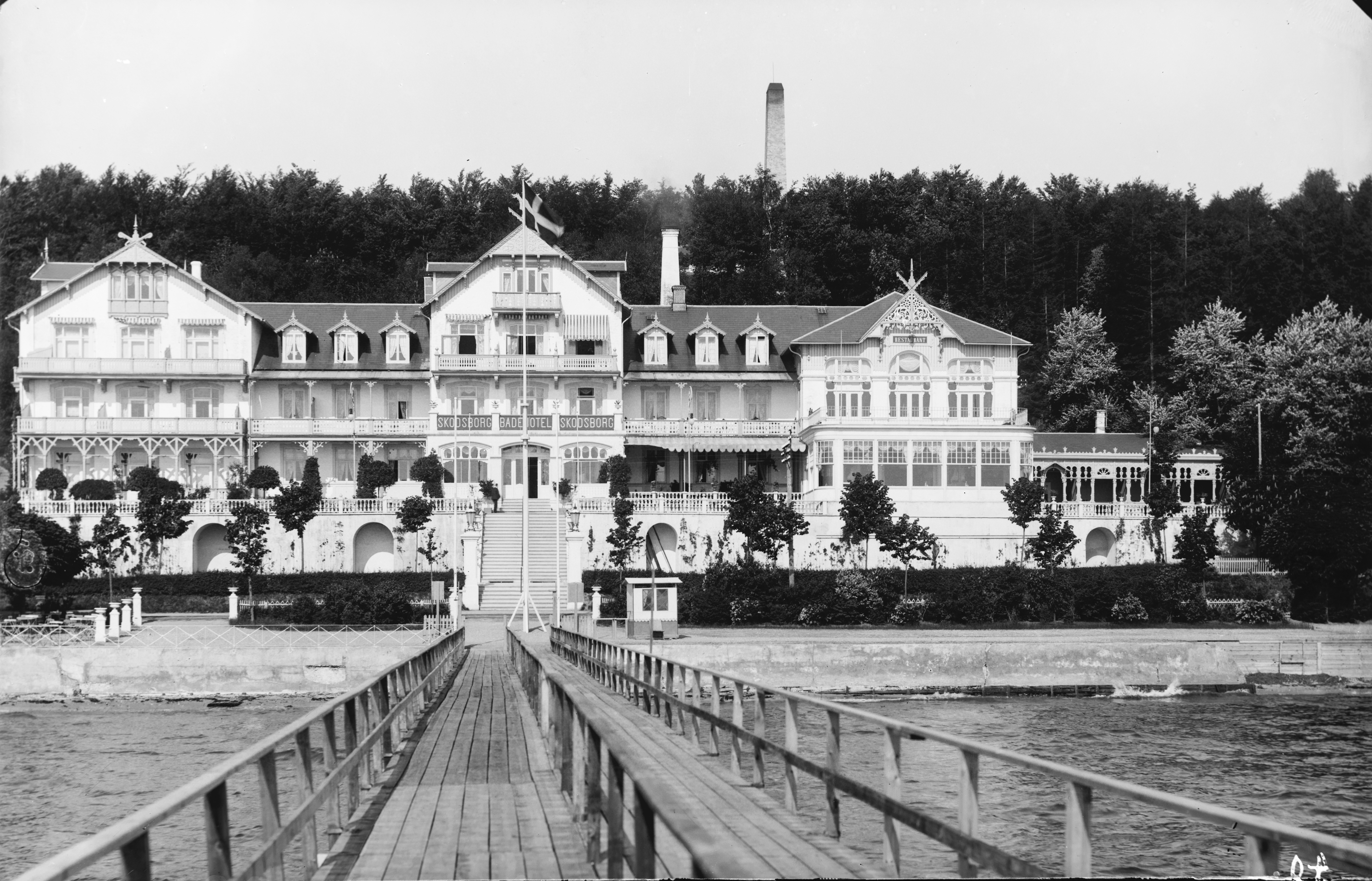 Skodsborg Badehotel